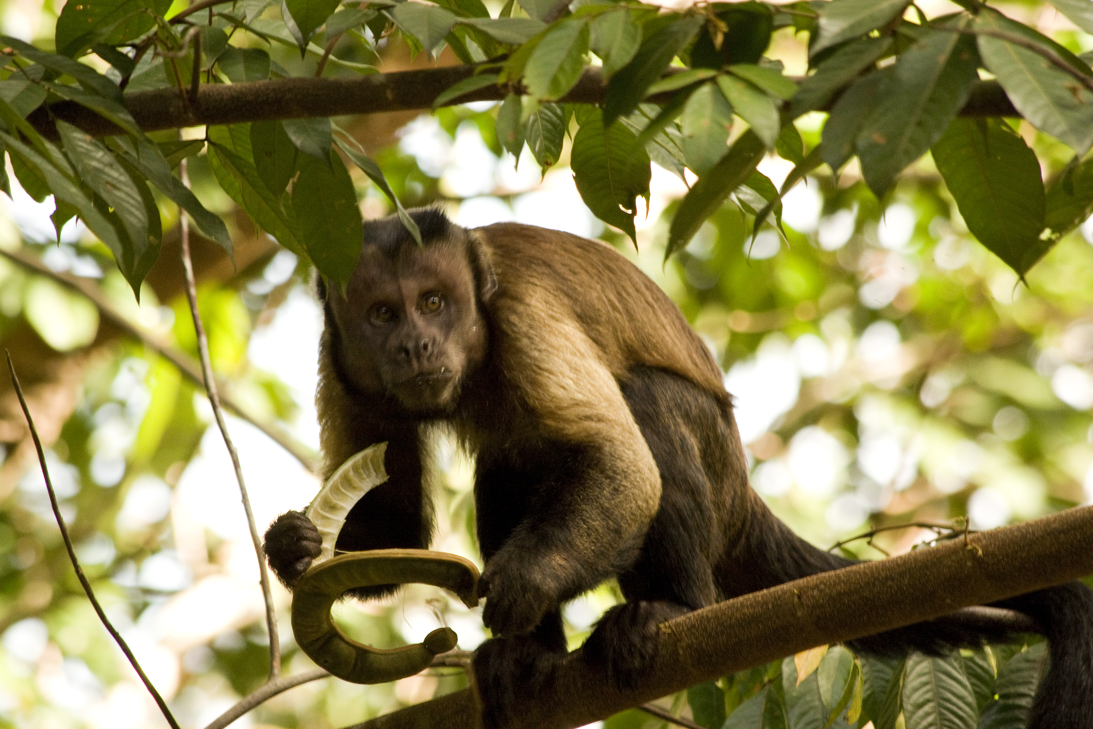 Guyanan brown capuchin (Sapajus apella apella) in French Guyana.